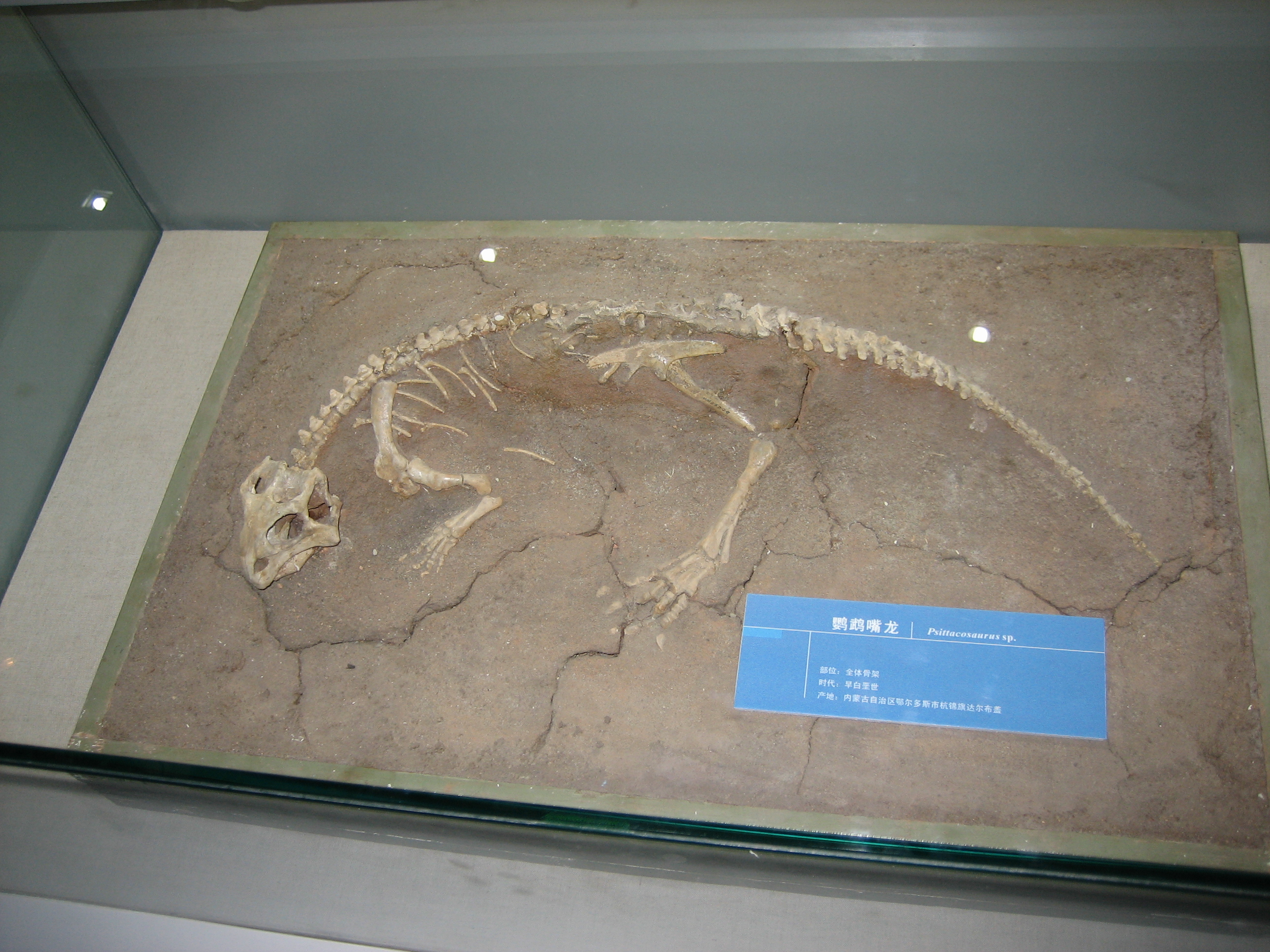 Photos from our trip to Hohhot, Inner Mongolia, China for National Day Holiday 2007. This is the Inner Mongolia Museum, the biggest museum in the region. Unfortunately, most of the museum wasn't labeled in English, so I can't give precise information about these artifacts.